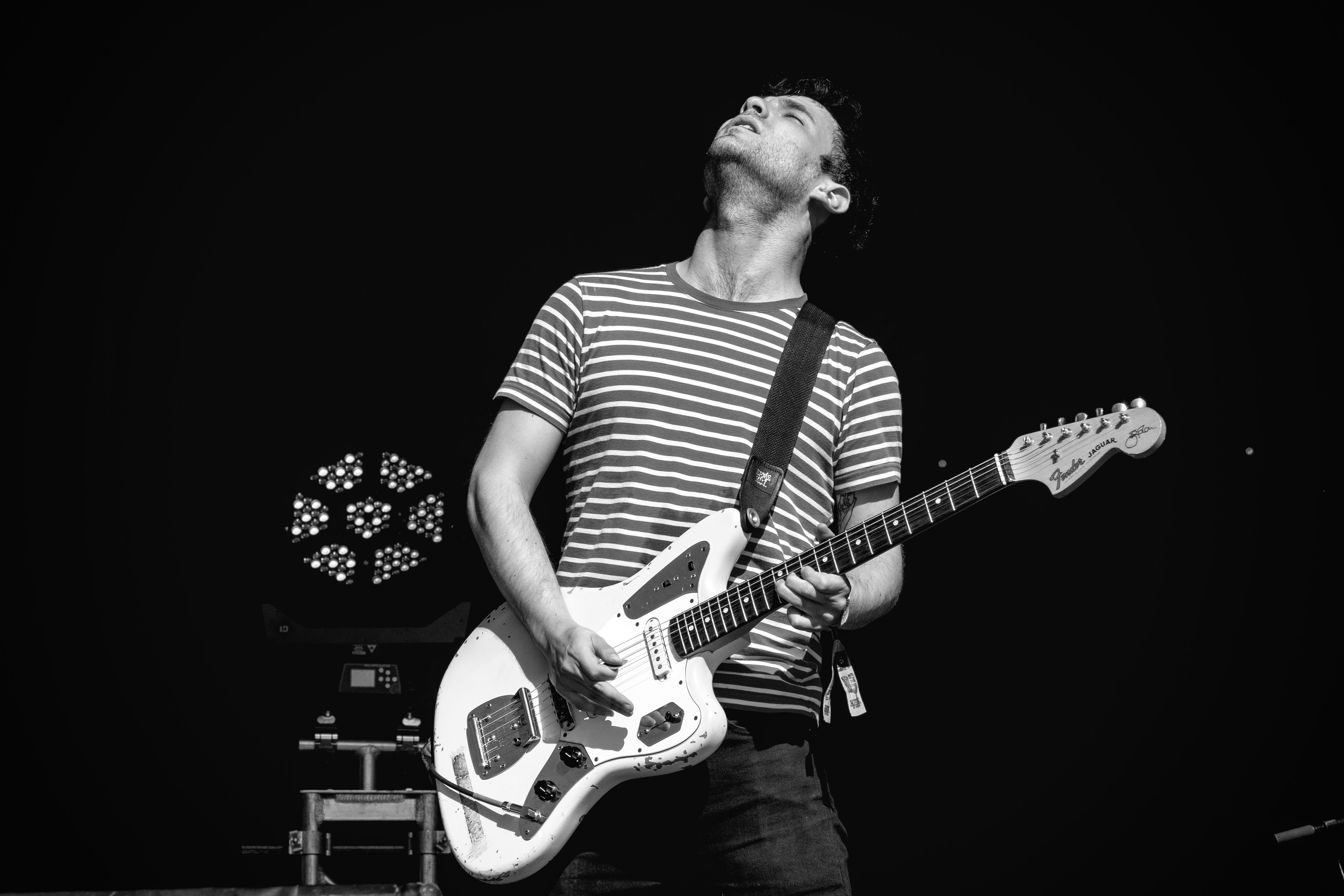 Charly Bliss